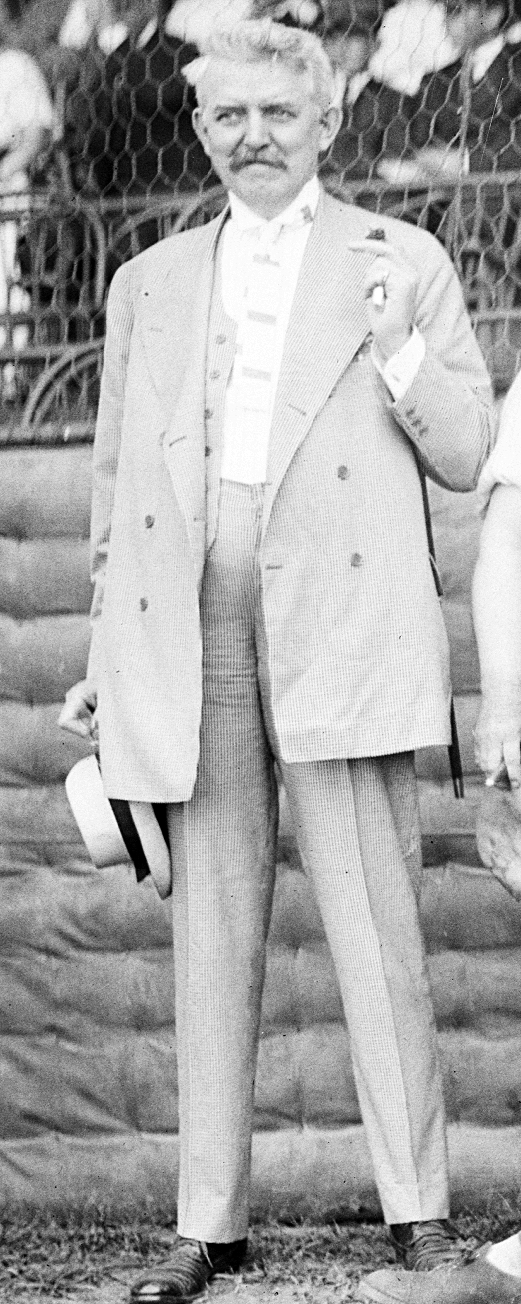 Andrew Jackson Barchfeld, US Representative from Pennsylvania